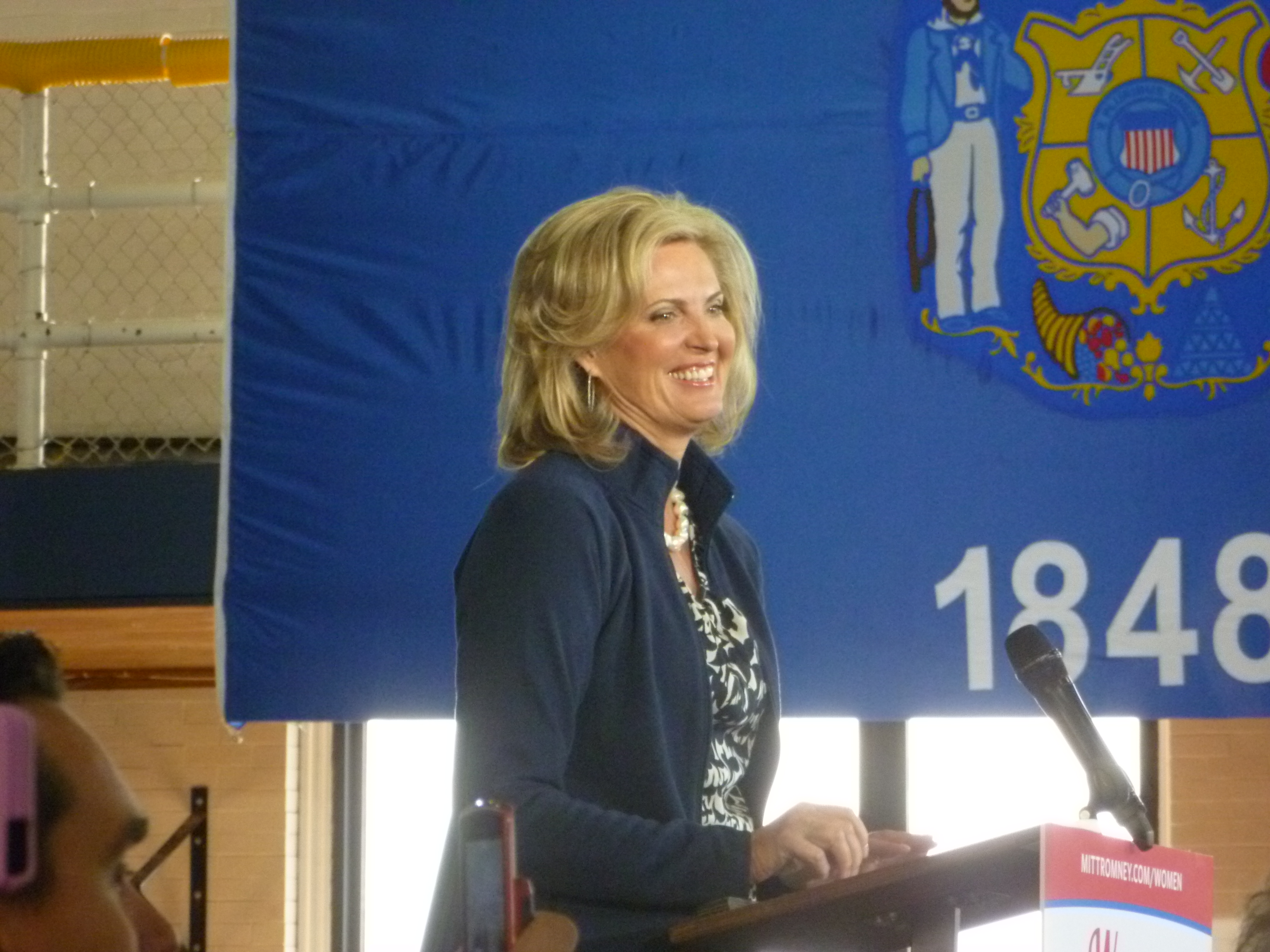 Ann Romney speaking at a Women for Romney rally at Marquette University, September 20, 2012.